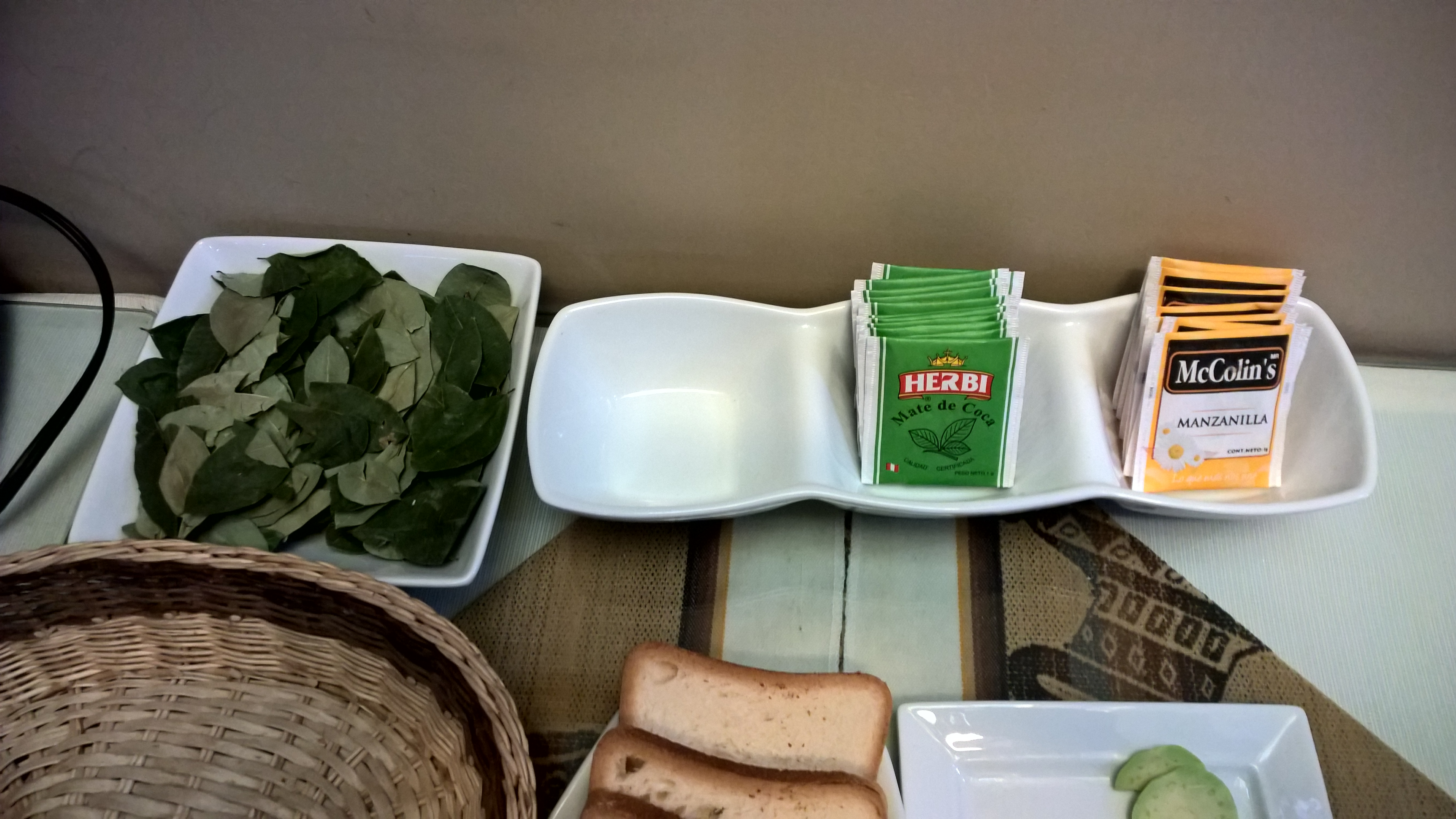 Partial view of hotel breakfast table in Puno by the Lake Titicaca in Peru, featuring coca leaves and coca tea.